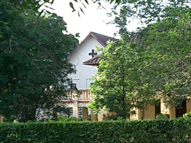 A view of Heber Chapel from the outdoor stage, Madras Christian College.